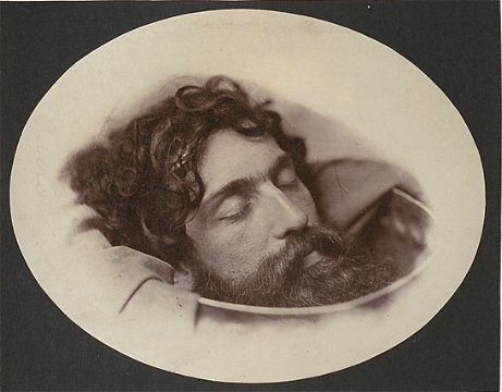 Head of St. John the Baptist in a Charger; albumen print 14.0 x 18.0 cm. (oval) Museum Purchase: ex-collection A.E. Marshall George Eastman House Still Photograph Archive